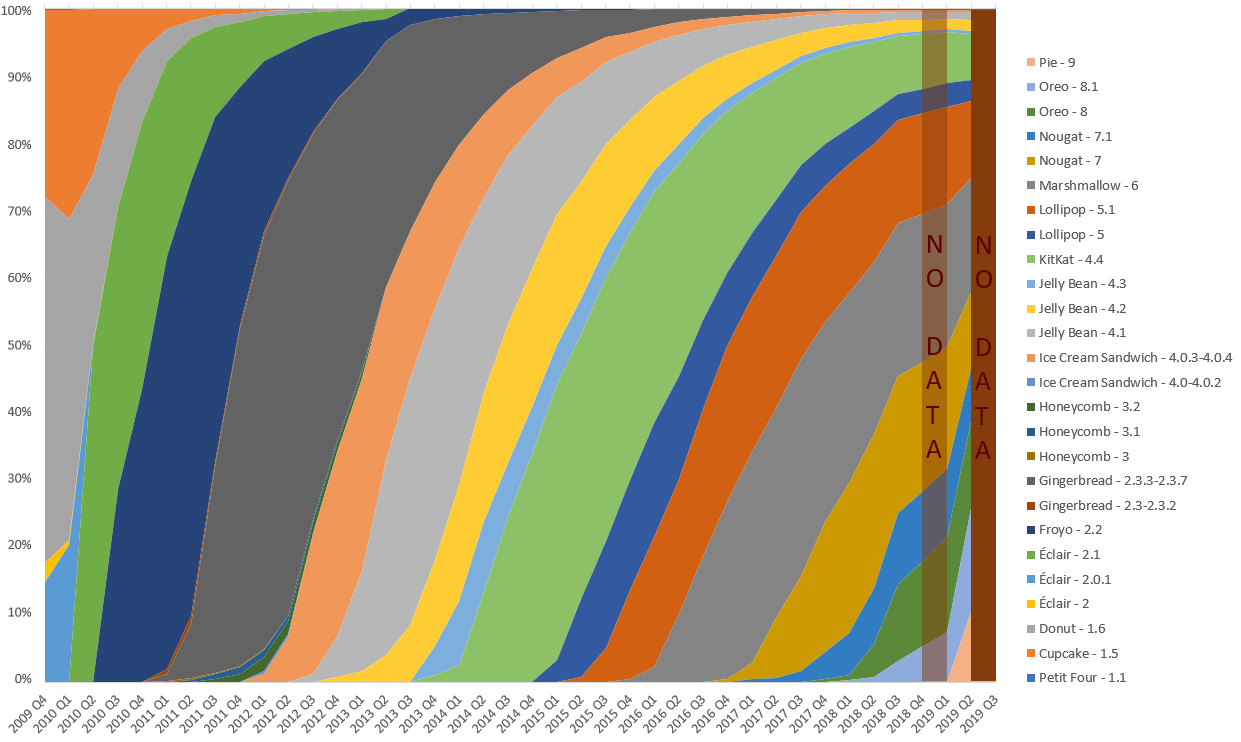 Historical Android version distribution according to Google Play Store usage, summing up data since by quarter since Q4 2009.